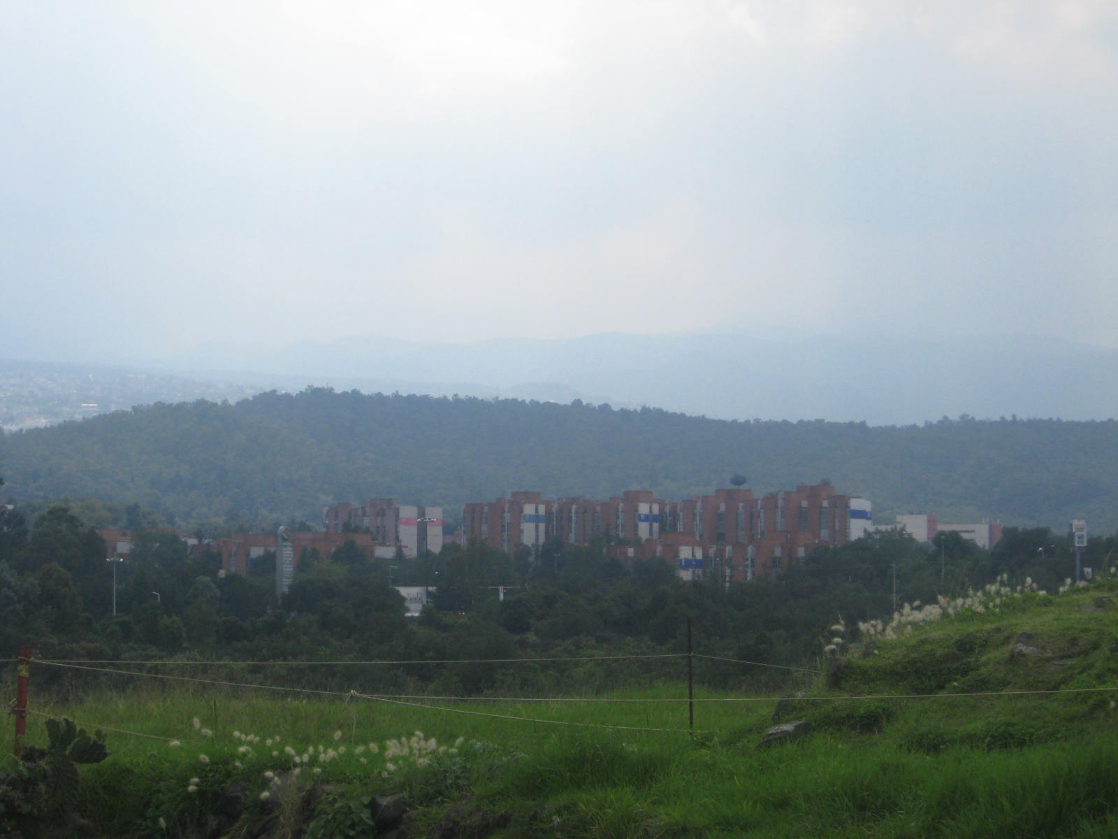 Looking southwest from the top of the Cuicuilco pyramid located in Tlalpan borough of Mexico City. In the background, the Villa Olimpica (now housing) for the 1968 Games can be seen.